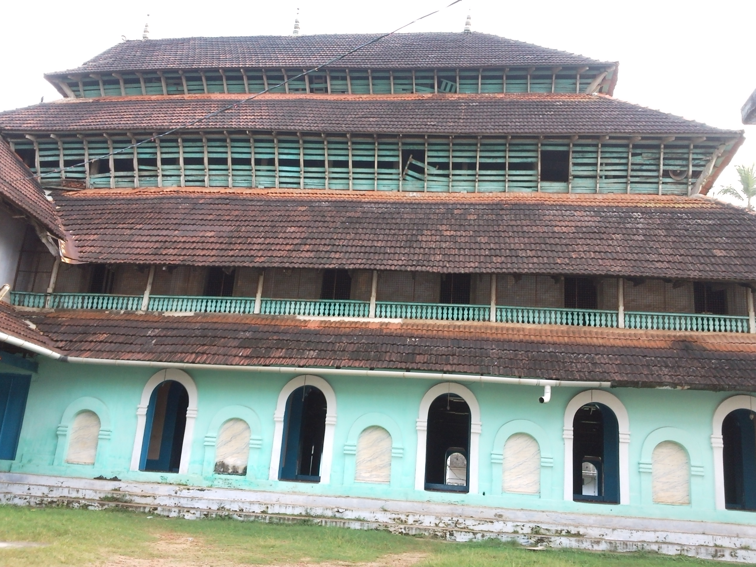 Miskal Mosque in Kuttichira, Calicut, India